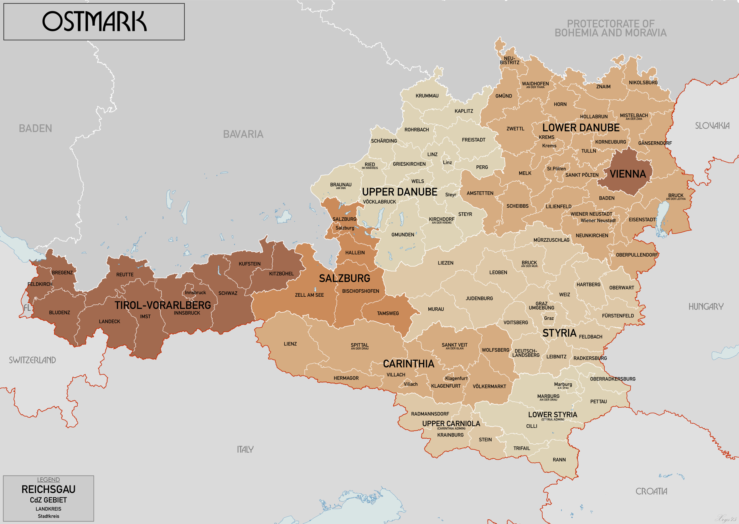 Administrative map of Ostmark in 1941. Showing Reichsgaue and CdZ Gebiete subdivided into Landkreise and Stadtkreise. Source map data: Karte von Mitteleuropa 300k, Karte des Deustchen Reiches 100k. Source map site